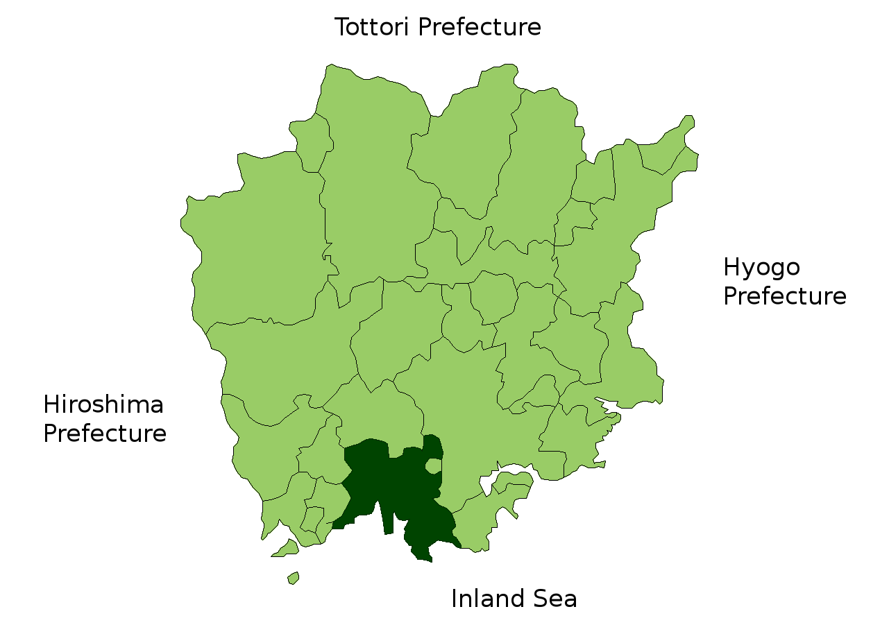 Map of Okayama Prefecture highlighting Kurashiki city. Borders of map as of July, 2006. (blank map used from [1]) See also Image:OkayamaMapCurrent.png.